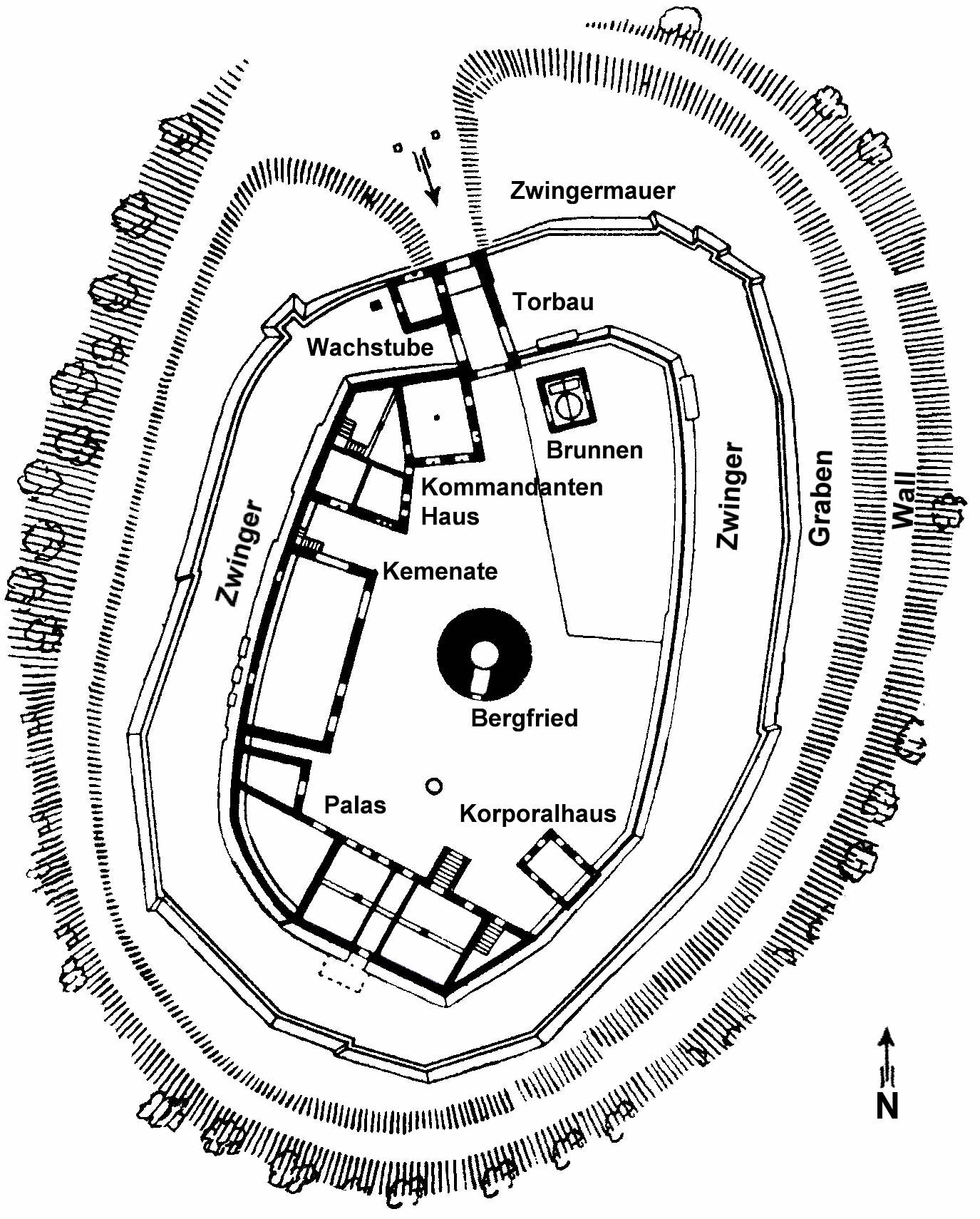 Otzberg map of the castle Veste Otzberg